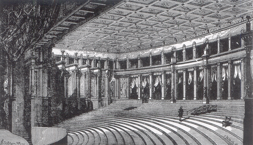 1875 engraving of the Bayreuth Festival Theatre